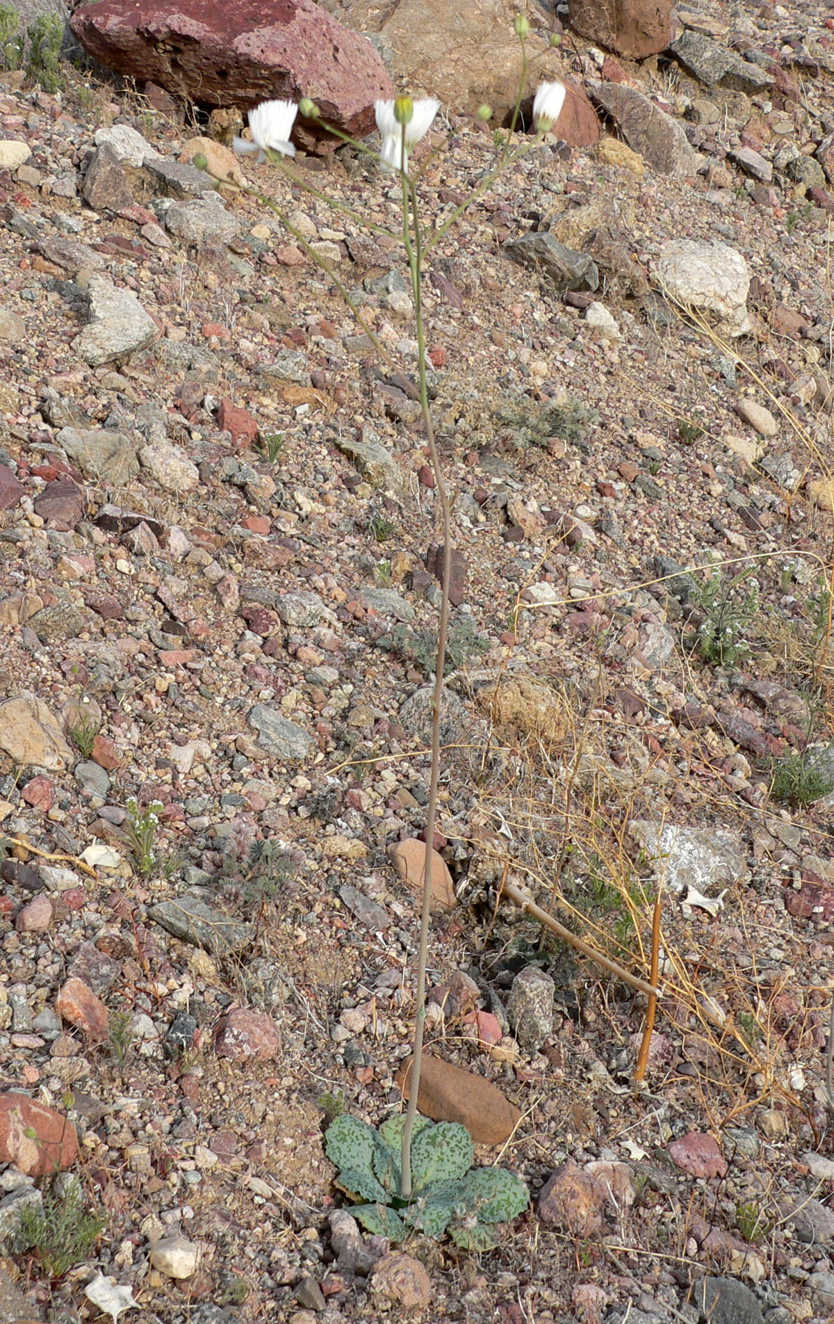 Atrichoseris platyphylla near route 178, two miles east of Jubilee Pass, Death Valley National Park